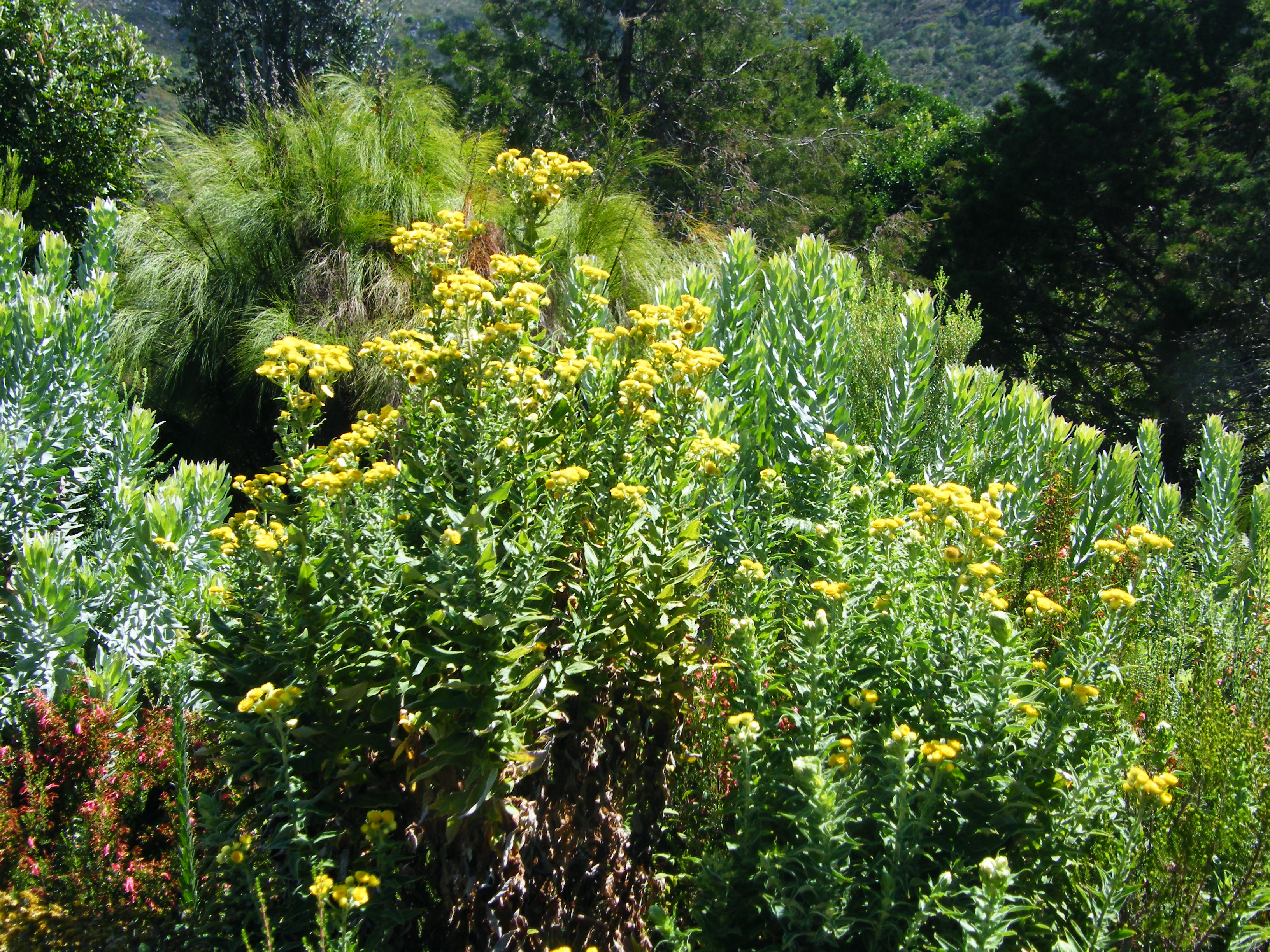 Stinking strawflower; Stinking everlasting